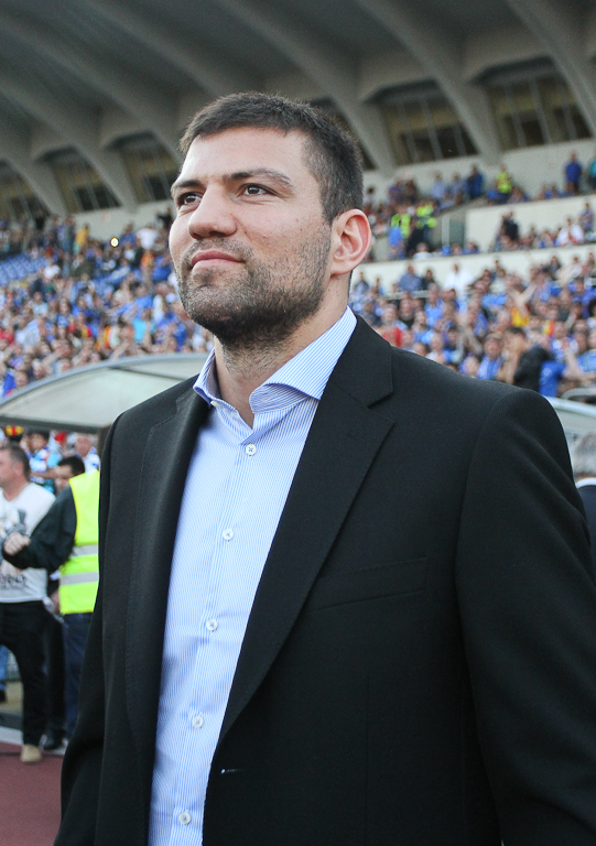 Tervel Venkov Pulev (Bulgarian: Тервел Венков Пулев), born on 10 January 1983, is a Bulgarian boxer. He is the younger brother of boxer Kubrat Pulev.